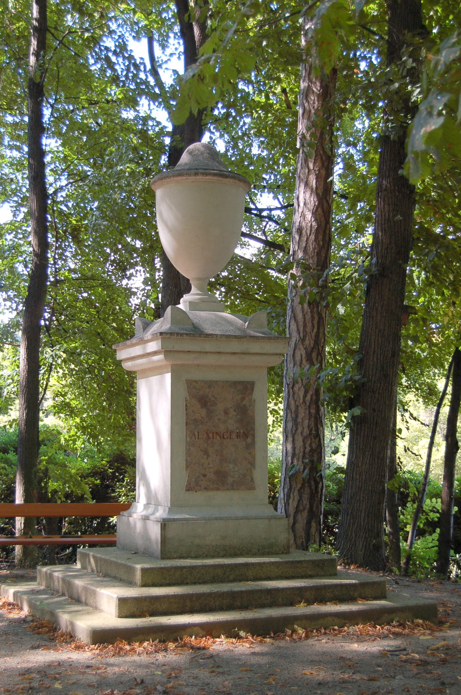 Memorial to the poet Johann Baptist Alxinger in the park at Schloss Pötzleinsdorf, Vienna's 18th district